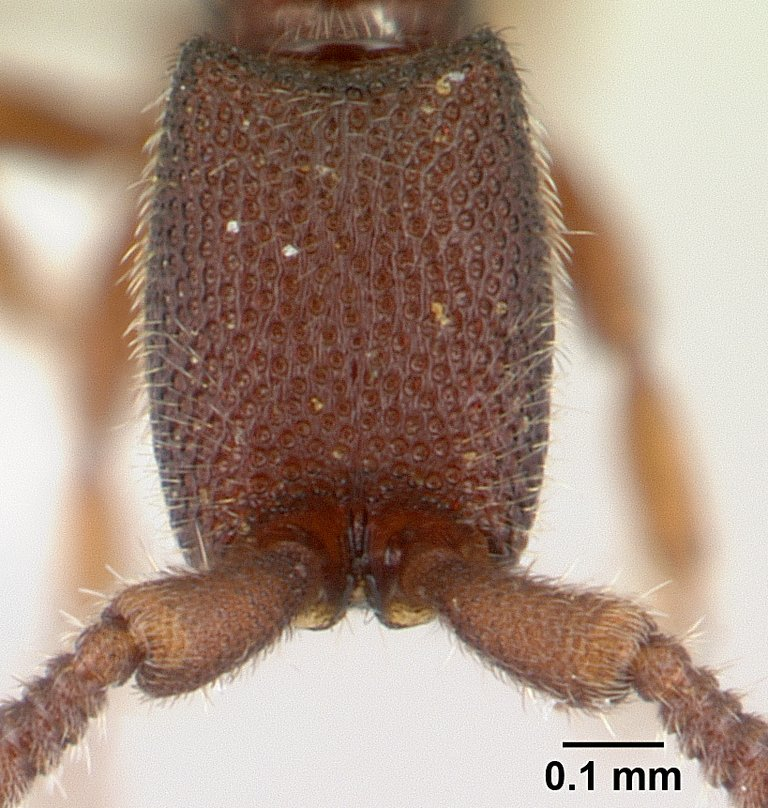 Head view of ant Cerapachys typhlus specimen casent0106214.